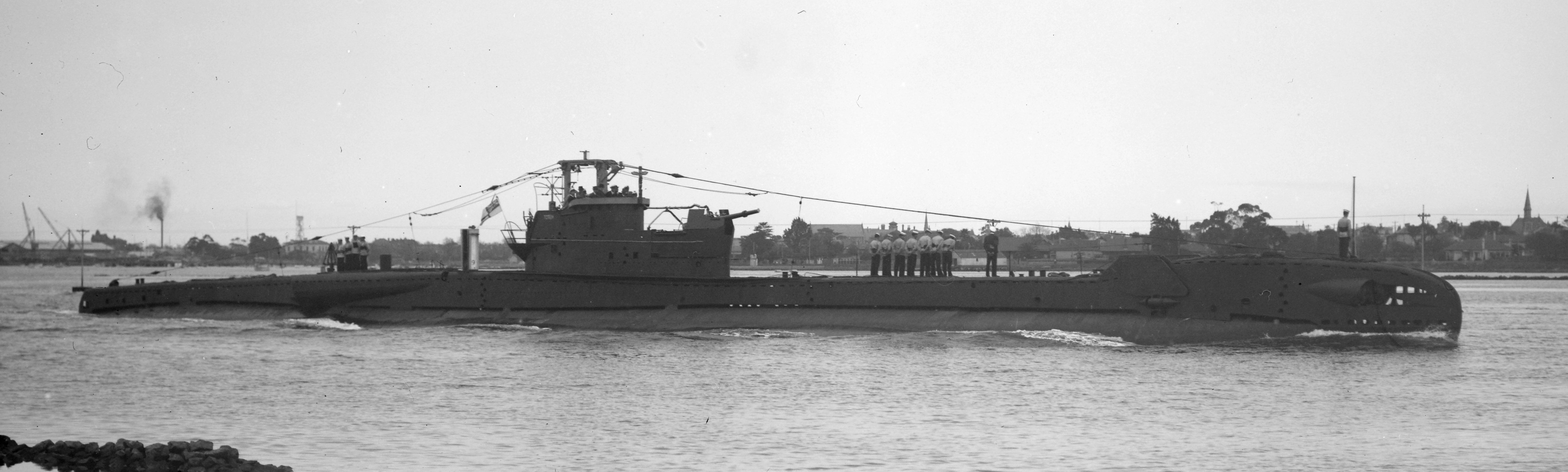 HMS Totem